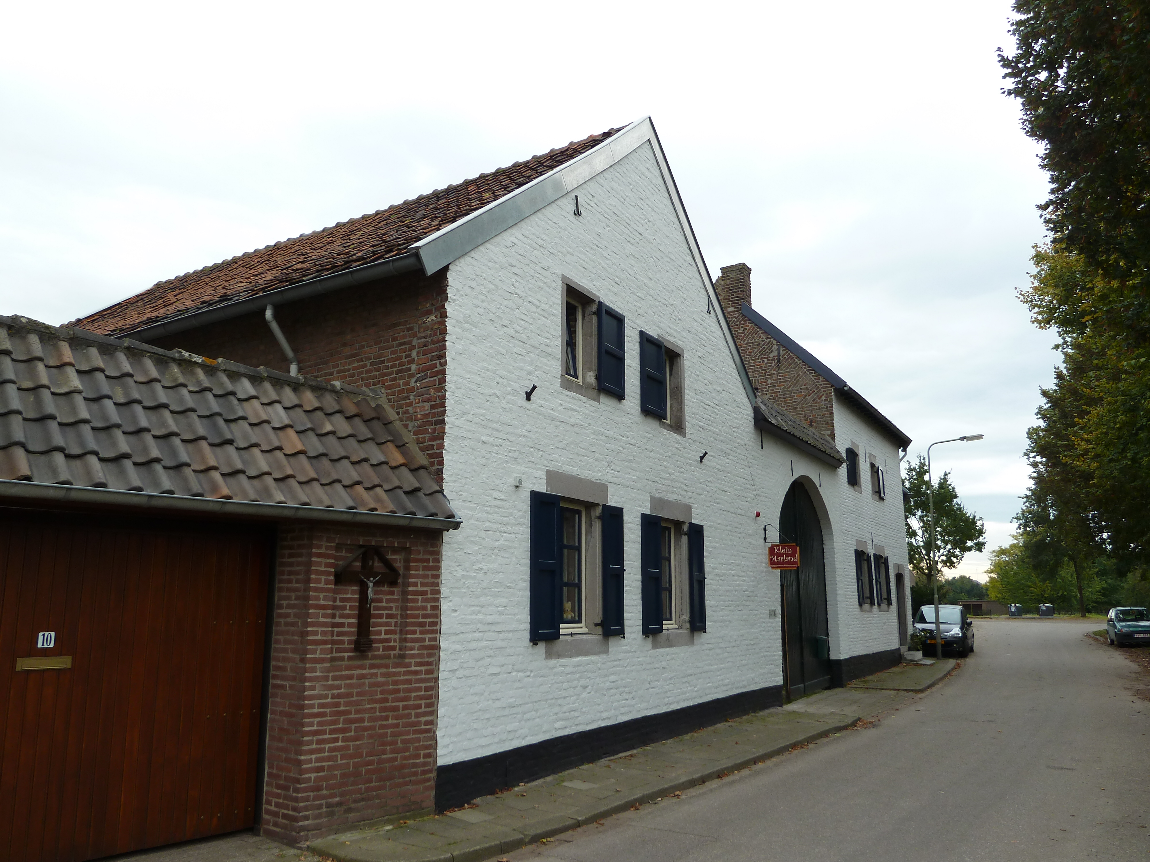 Rijckholterweg 8, Oost-Maarland, Limburg, the Netherlands